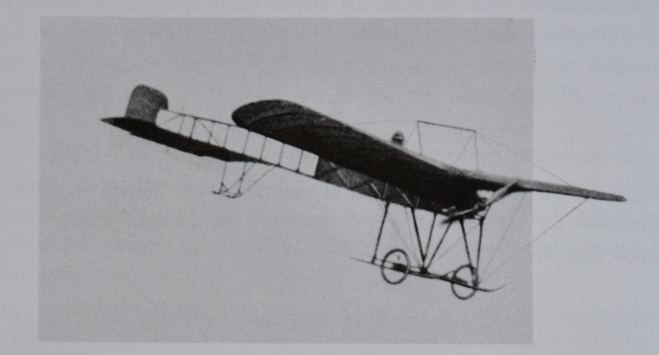 "The first Caproni monoplane powered by a 28 HP Anzani fan engine" (translation of the original caption).